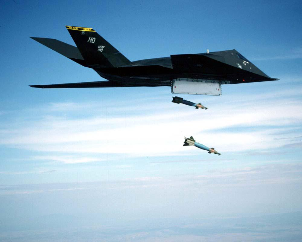 The Lockheed F-117A Nighthawk is a stealth ground attack aircraft operated solely by the United States Air Force. The F-117A's first flight was in 1981, and it achieved Initial Operational Capability status in October 1983. The F-117A came out of secrecy and was revealed to the world in November 1988. As a product of the Skunk Works and a development of the Have Blue prototype, it became the first operational aircraft initially designed around stealth technology. The F-117A was widely publicized during the Gulf War. The Air Force is on-track to retire the F-117 in April 2008 due mainly to the deployment of the more effective F-22 Raptor.